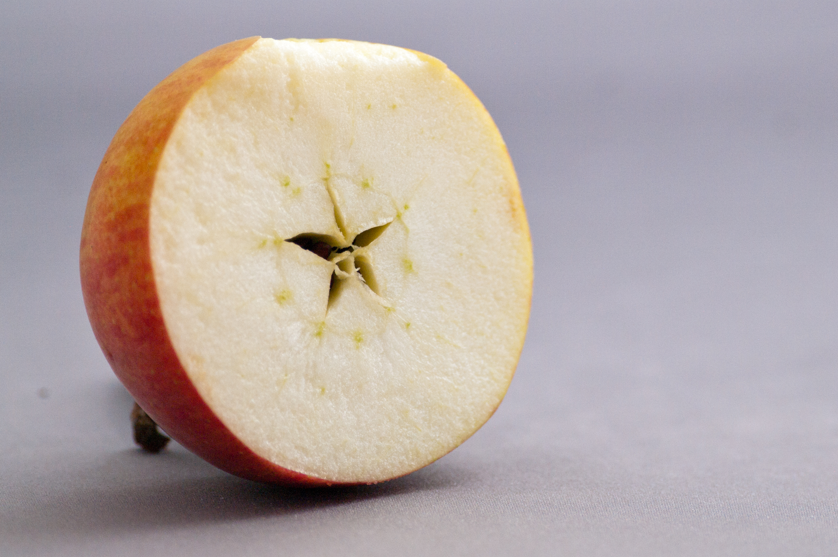 Shampion apple, cut in half